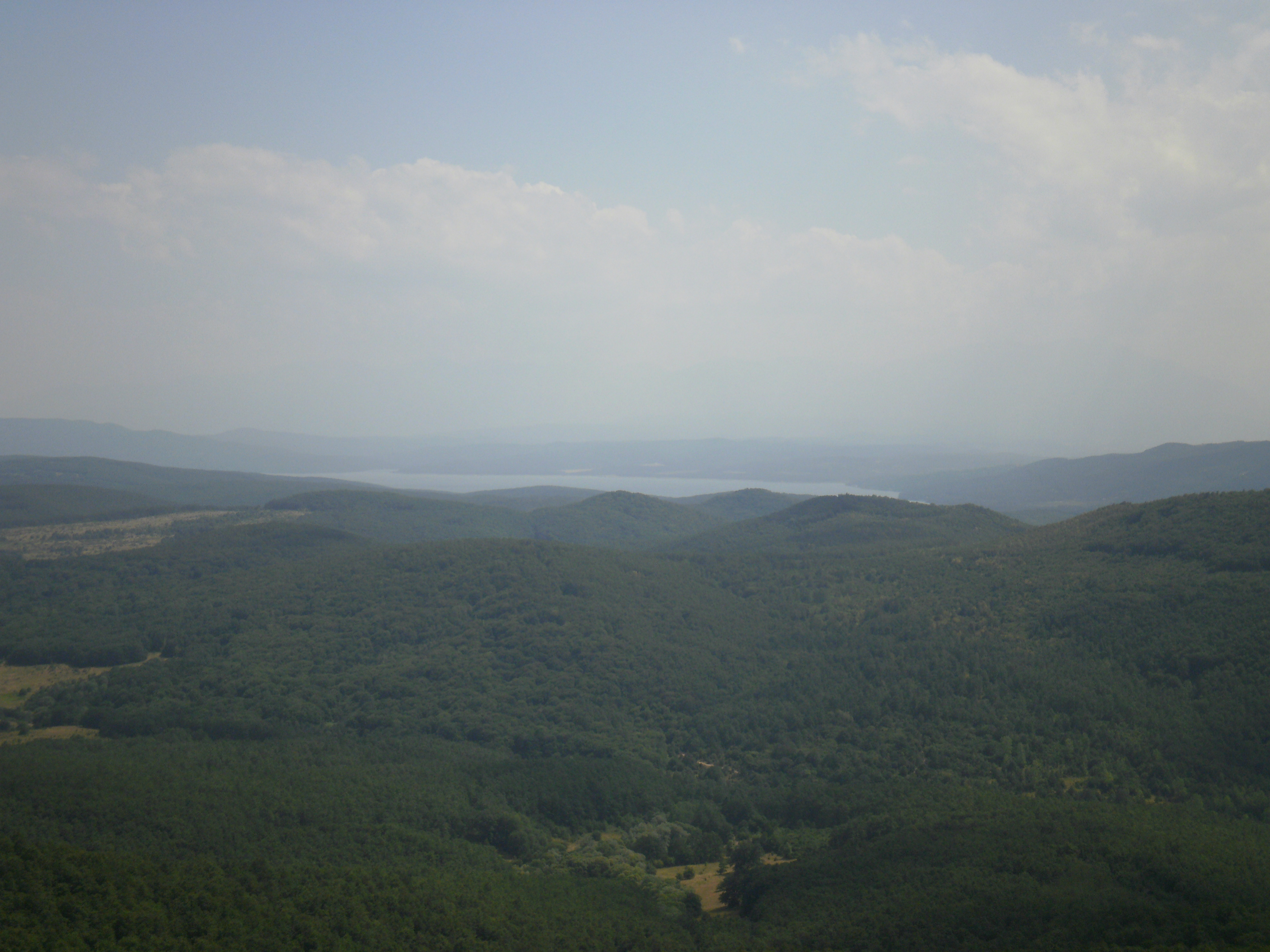 Iskar Reservoir from Poluvrak peak, Bulgaria.